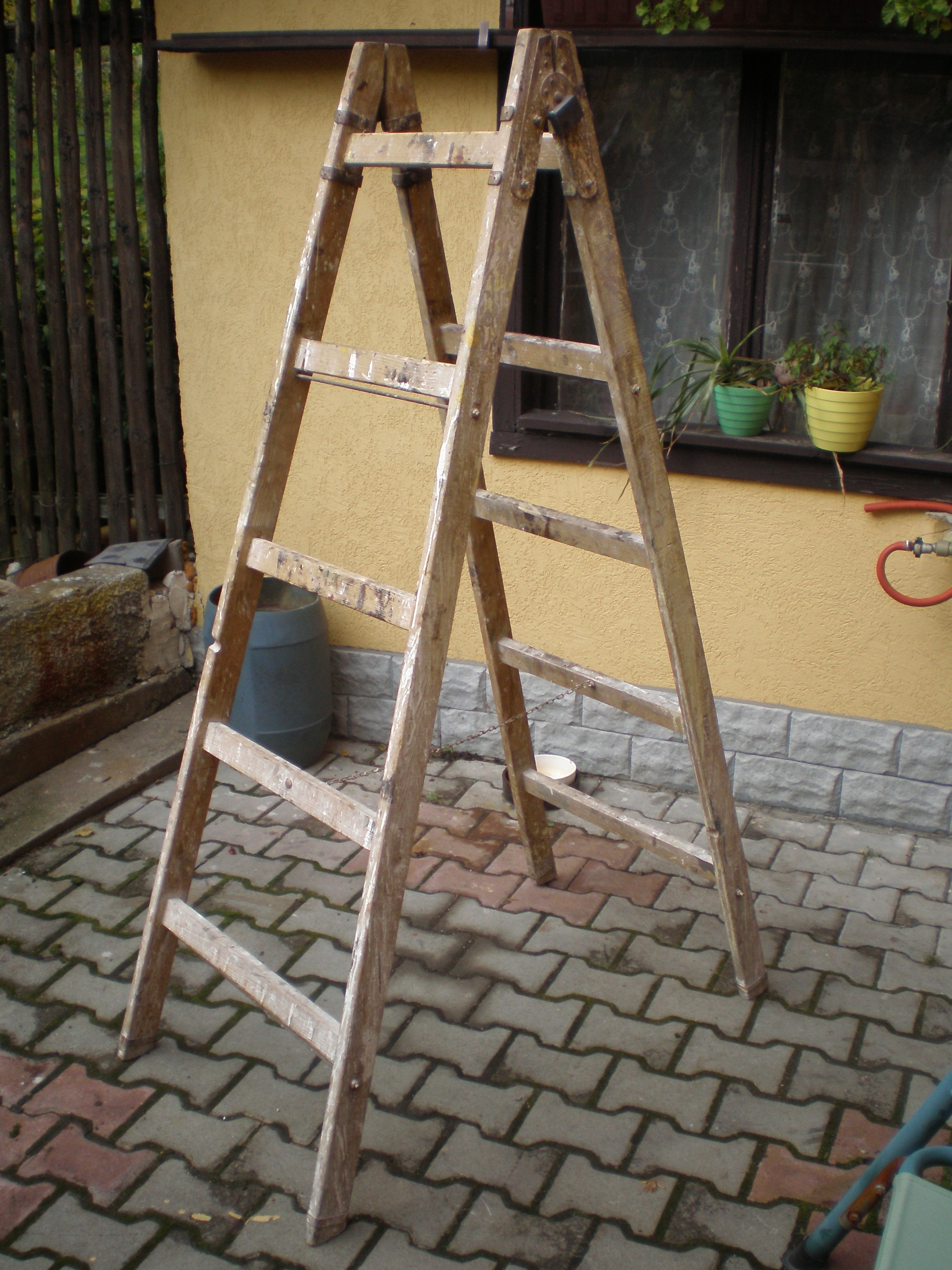 Step-ladder